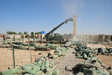 Soldiers of Company B, 4th Battalion, 9th Infantry Regiment, Combined Task Force 4-2 (4th Stryker Brigade Combat Team, 2nd Infantry Division) load scrap wood onto a forklift May 12 on Combat Outpost Talukan in the Panjwa’i district of Afghanistan. After living on the COP for nearly eight months, the soldiers of B Company demilitarized the COP including tearing down their sleeping tents. (U.S. Army photo by Sgt. Kimberly Hackbarth, 4th SBCT, 2nd Inf. Div. Public Affairs Office) Read more